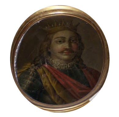 Mausoleum in the Santuario di Montevergine - portrait of Louis I of Naples